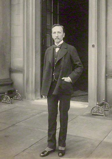 Photography of Robert Windsor-Clive, 1st Earl of Plymouth